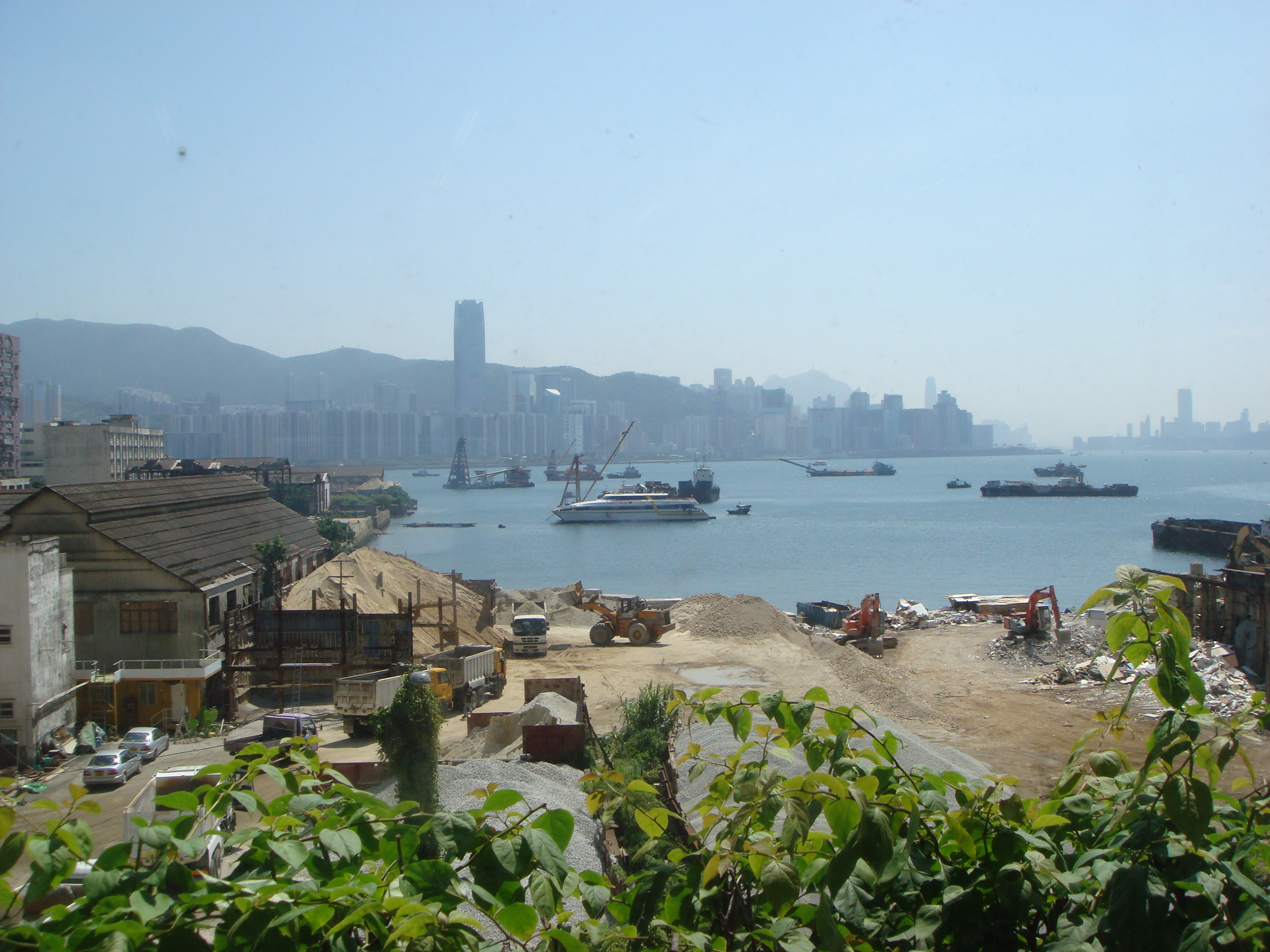 Kwun Tong Tsai Wan seen from Yau Tong Station